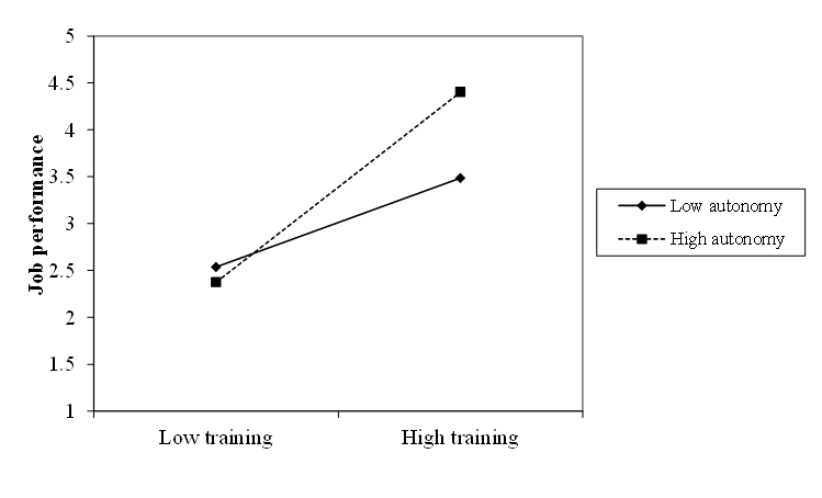 An example of a typical two-way interaction effect from a moderated regression analysis with two continuous independent variables